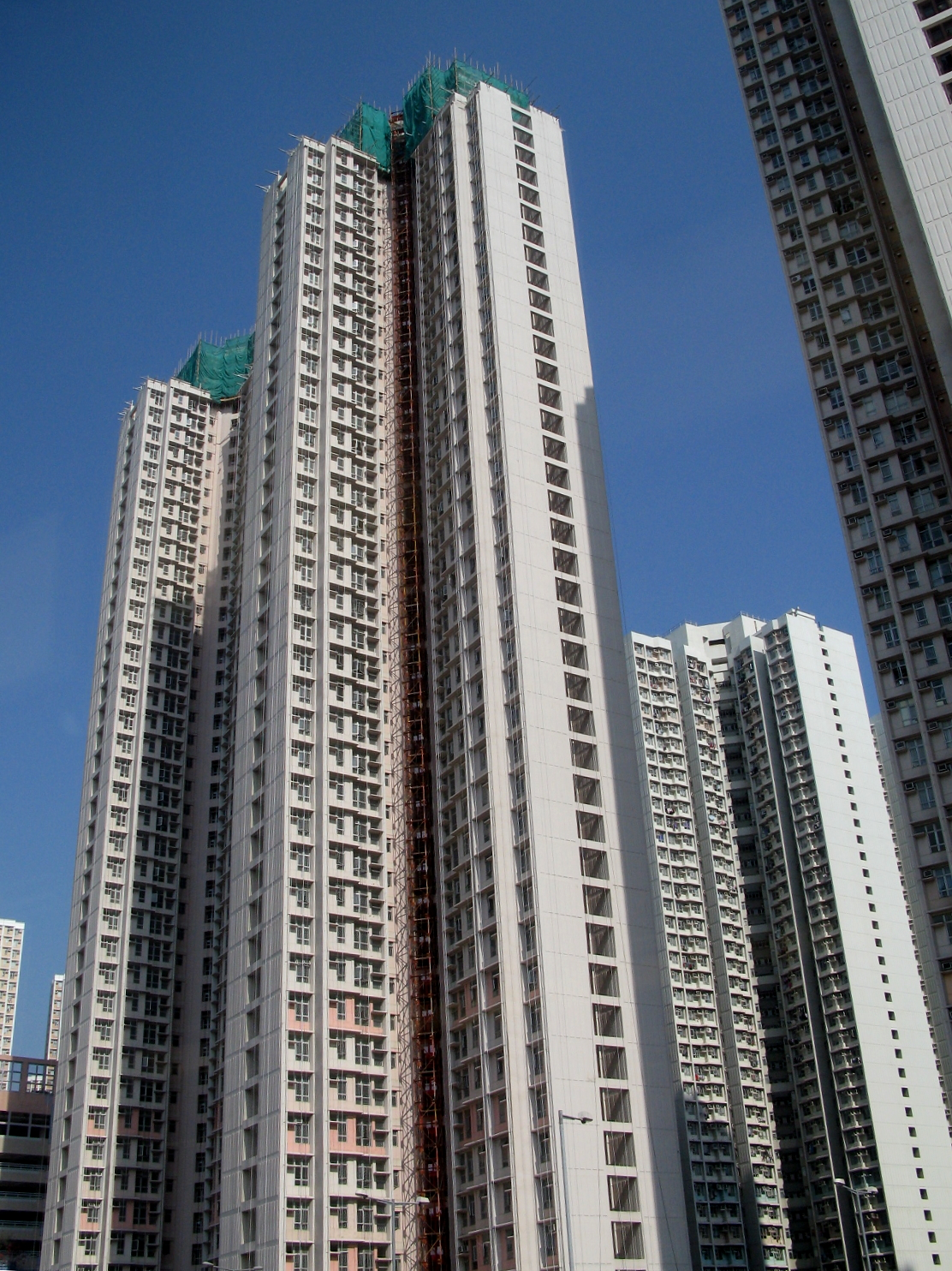 HK Tin Chung Court Tower K&L